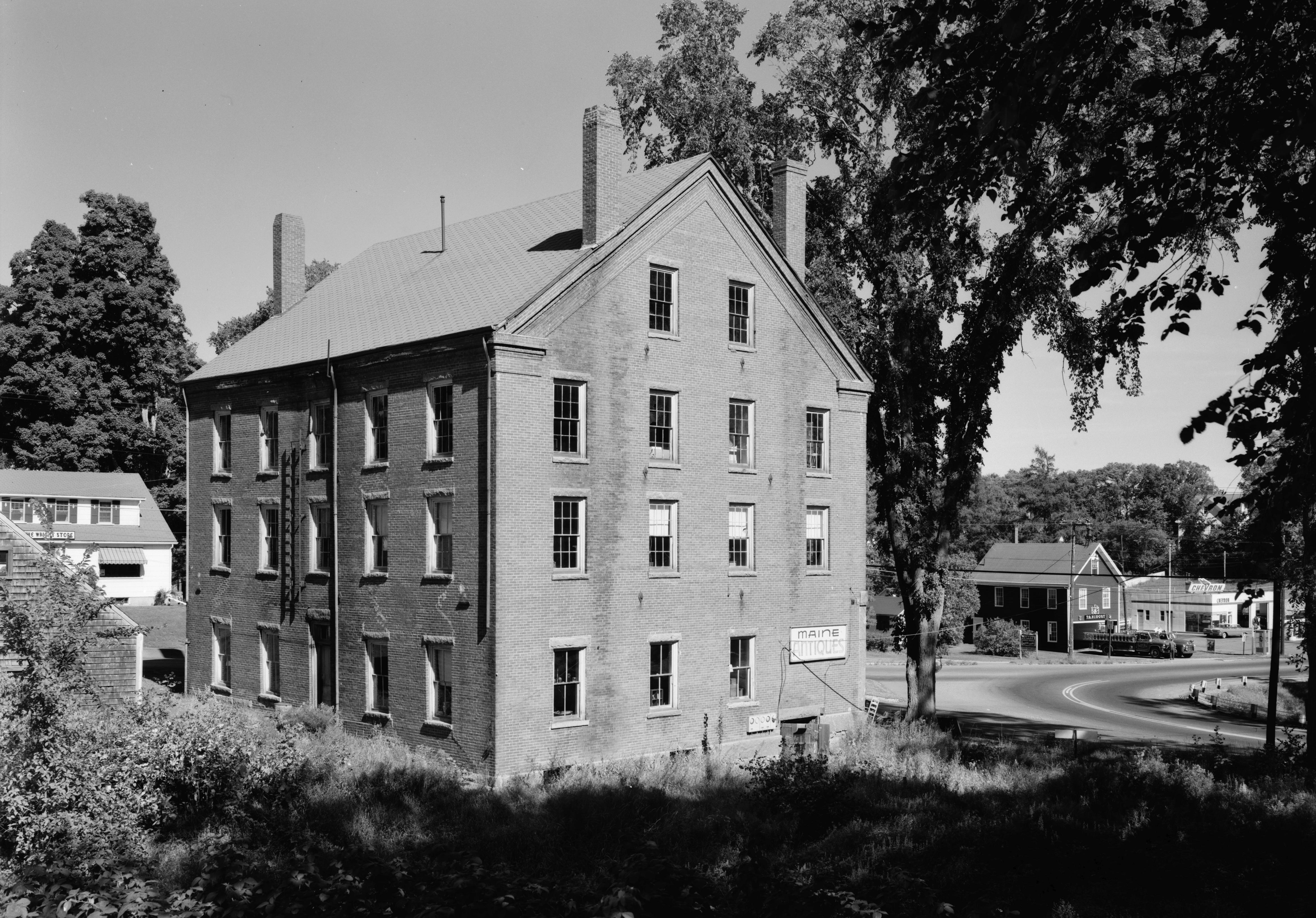 Rear and side of the Glidden-Austin Block, located at the junction of U.S. Route 1 and State Route 215 in Newcastle, Maine, United States. Built in 1845, it is listed on the National Register of Historic Places.